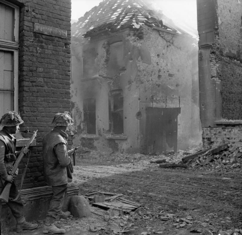 The Campaign in North West Europe 1944-45 Men of the 1st Royal Norfolks, 3rd Division, clearing enemy resistance in Kervenheim, Germany, 3 March 1945.